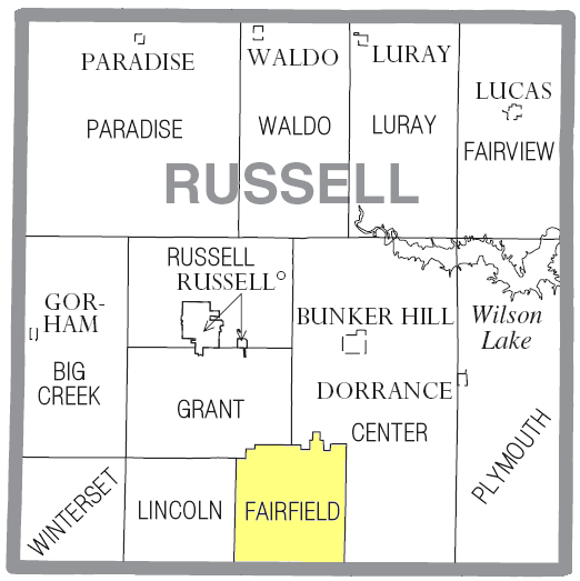 Map of Russell County, Kansas highlighting Fairfield Township